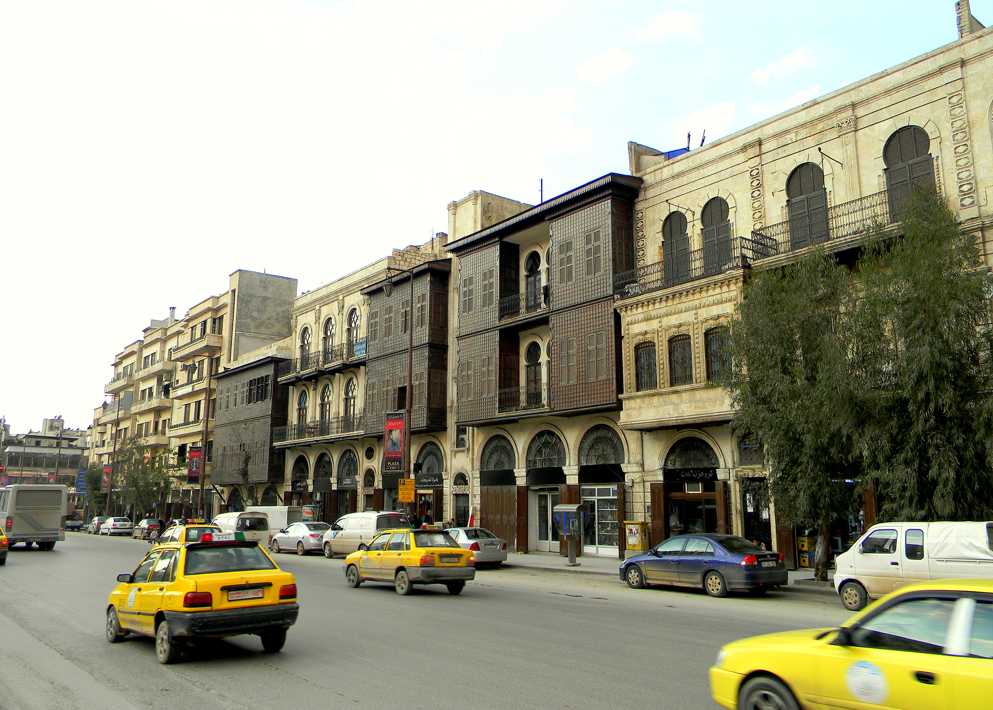 Khandaq street in Aleppo